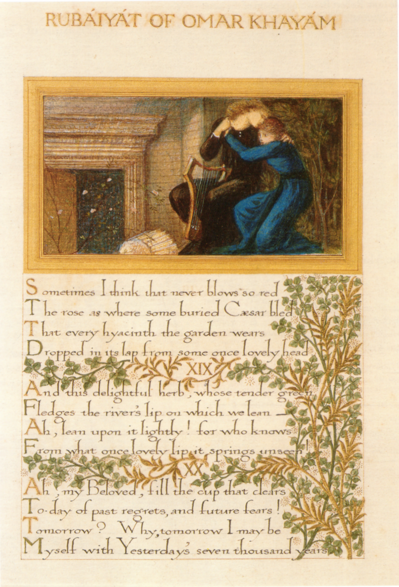 Page from an illuminated manuscript of the Rubaiyat of Omar Khayyam, watercolor, bodycolor and gold leaf. Calligraphy and ornamentation by William Morris, illustrations by Edward Burne-Jones.